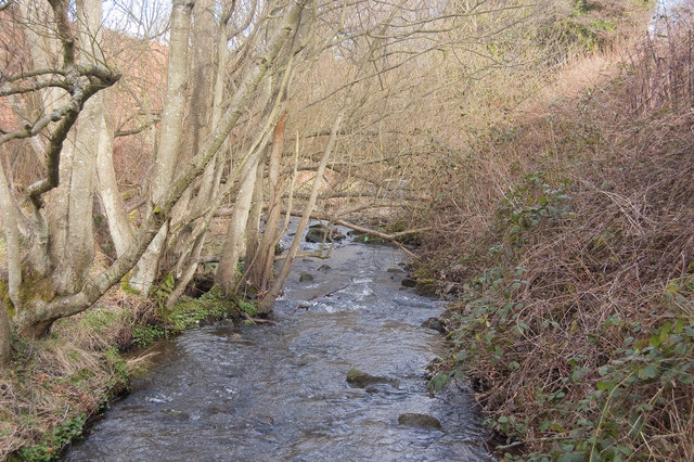 Bucks' Burn Just a few hundred metres further upstream than picture 1195033, the view of the burn is very different, as it makes its way through the countryside. In summer it is little more than a trickle, but in late winter, as seen here, it is close to a torrent.